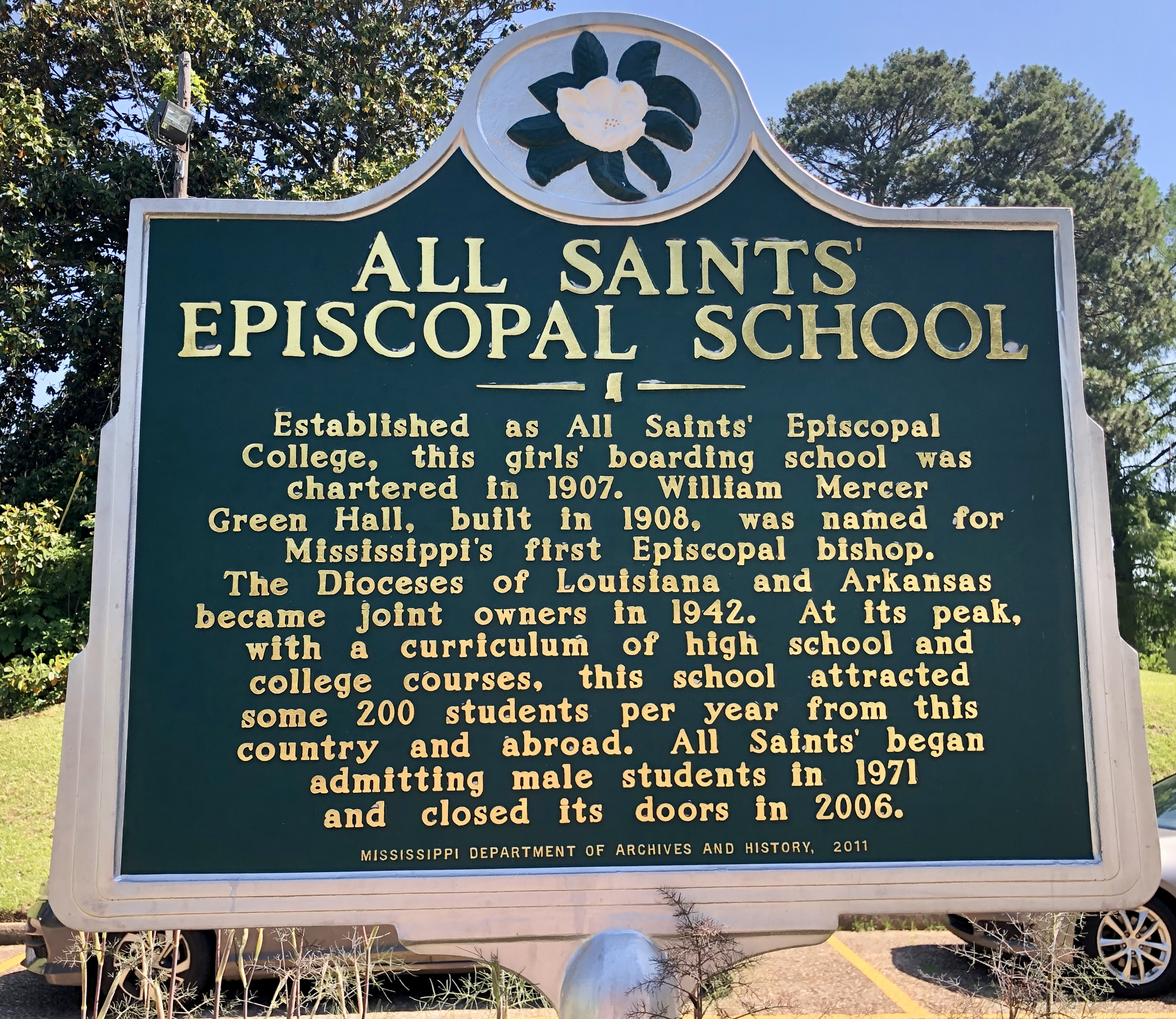 Historical marker notes history of the former school.